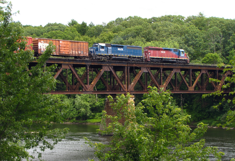 Pan Am Train MOED on the bridge over the Connecticut River